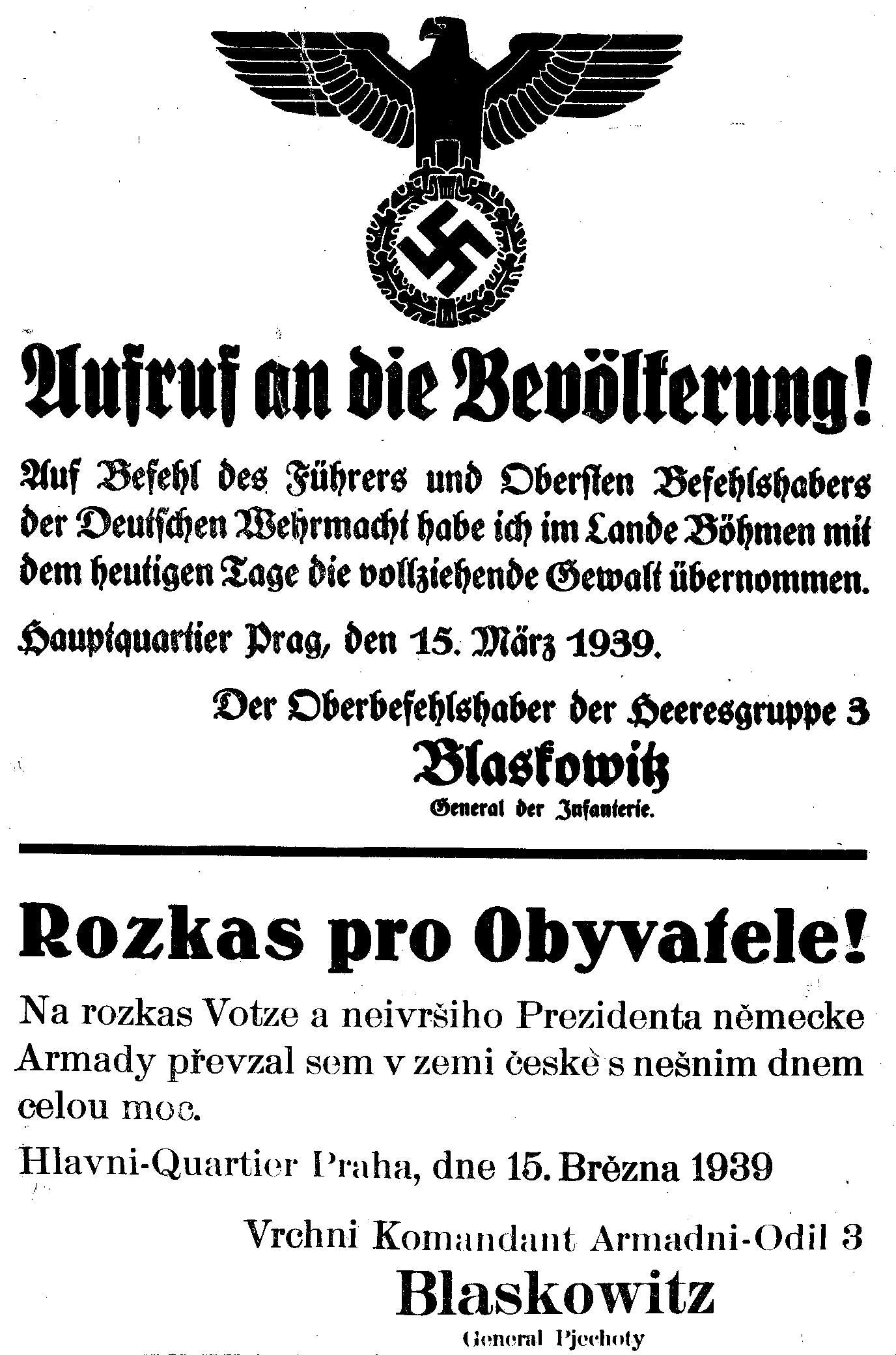 Poster from Nazi Germany's occupation of Prague, Czechoslovakia: "Notice to the Population. By order of the Fuhrer and Supreme Commander of the German Wehrmacht. I have taken over, as of today, the executive power in the State of Bohemia. Headquarters, Prague, 15 March 1939. Commander, 3rd Army, Blaskowitz, General of Infantry."